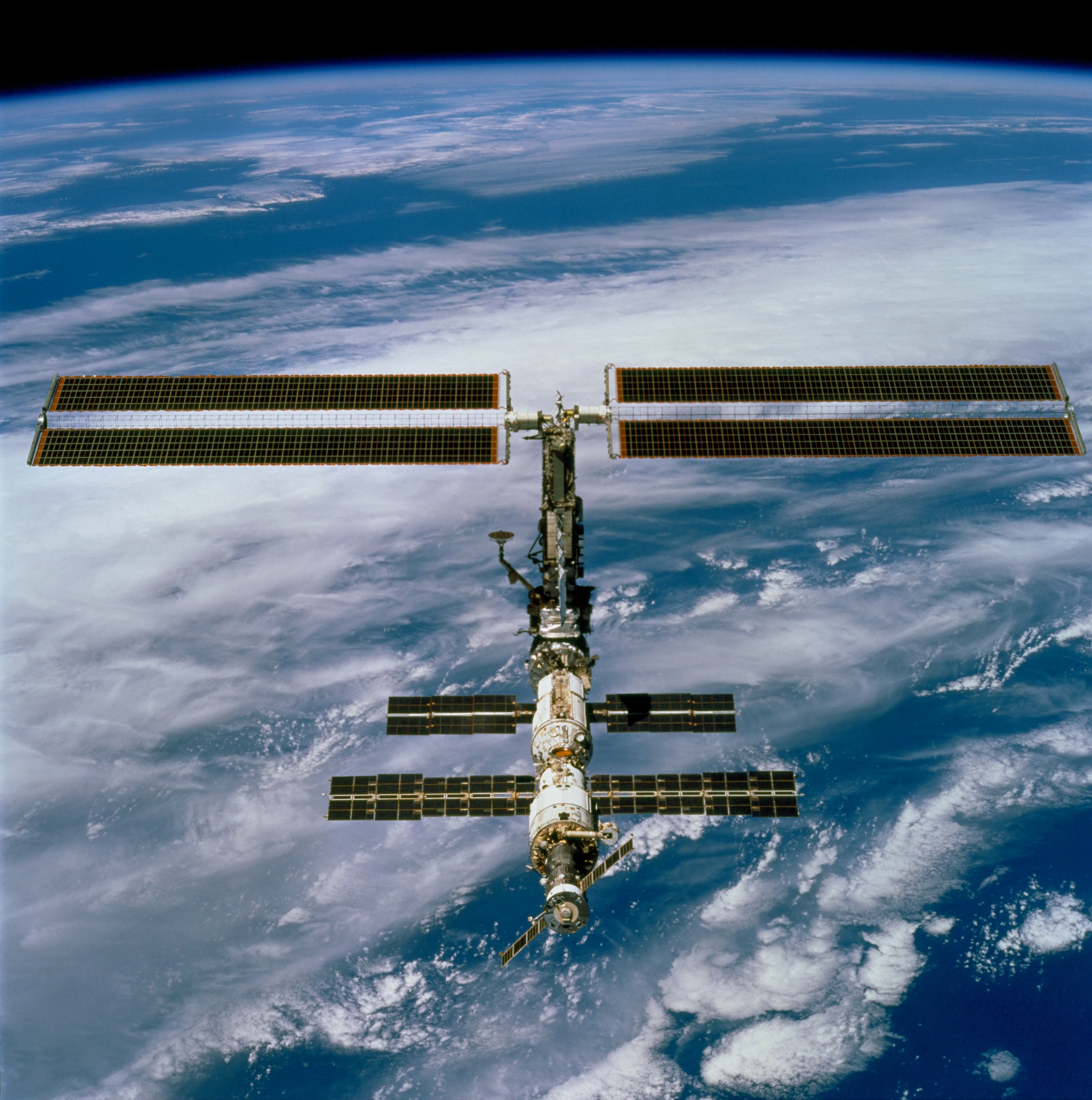 The space station with newly installed U.S. solar arrays (top) in December 2000. Picture taken by the departing STS-97 crew aboard space shuttle Endeavour.